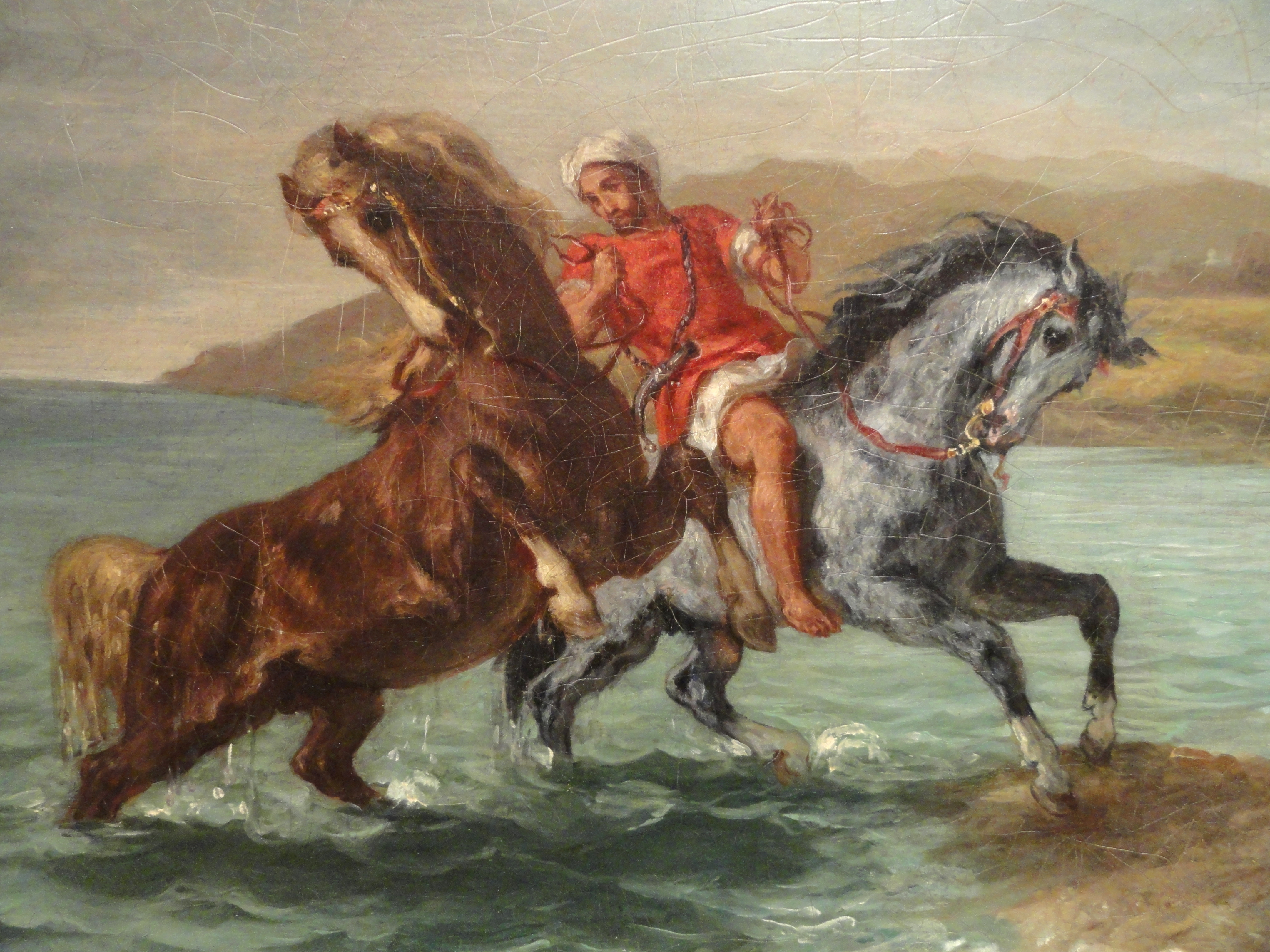 Horses Coming Out of the Sea, Ferdinand-Victor-Eugène Delacroix, 1860 (detail) - Phillips Collection, Washington, DC. This artwork is in the public domain because the artist died more than 70 years ago.